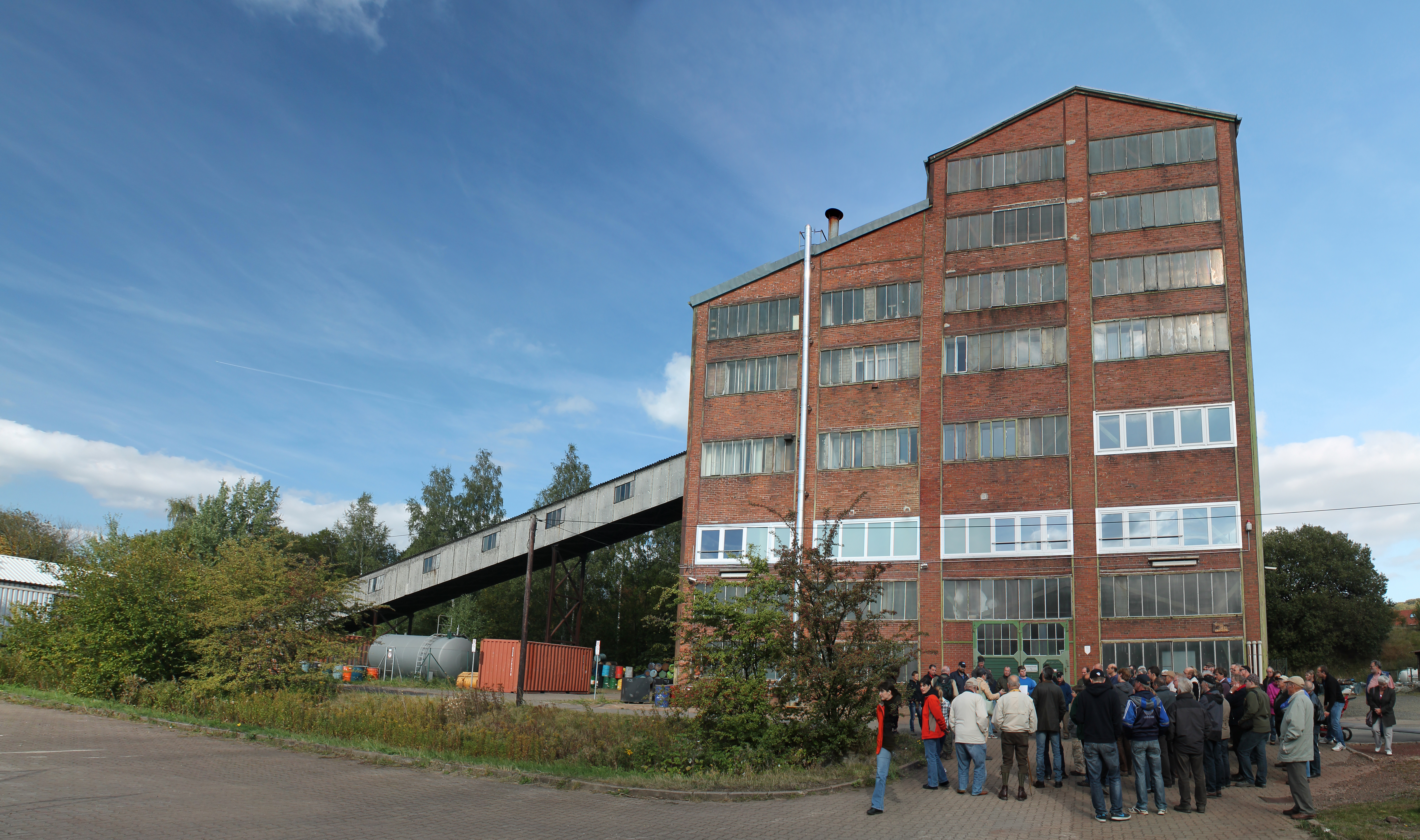 No. 3 building. Ore mill of Ida-Bismarck iron ore mine, Othfresen, Lower Saxony, Germany.